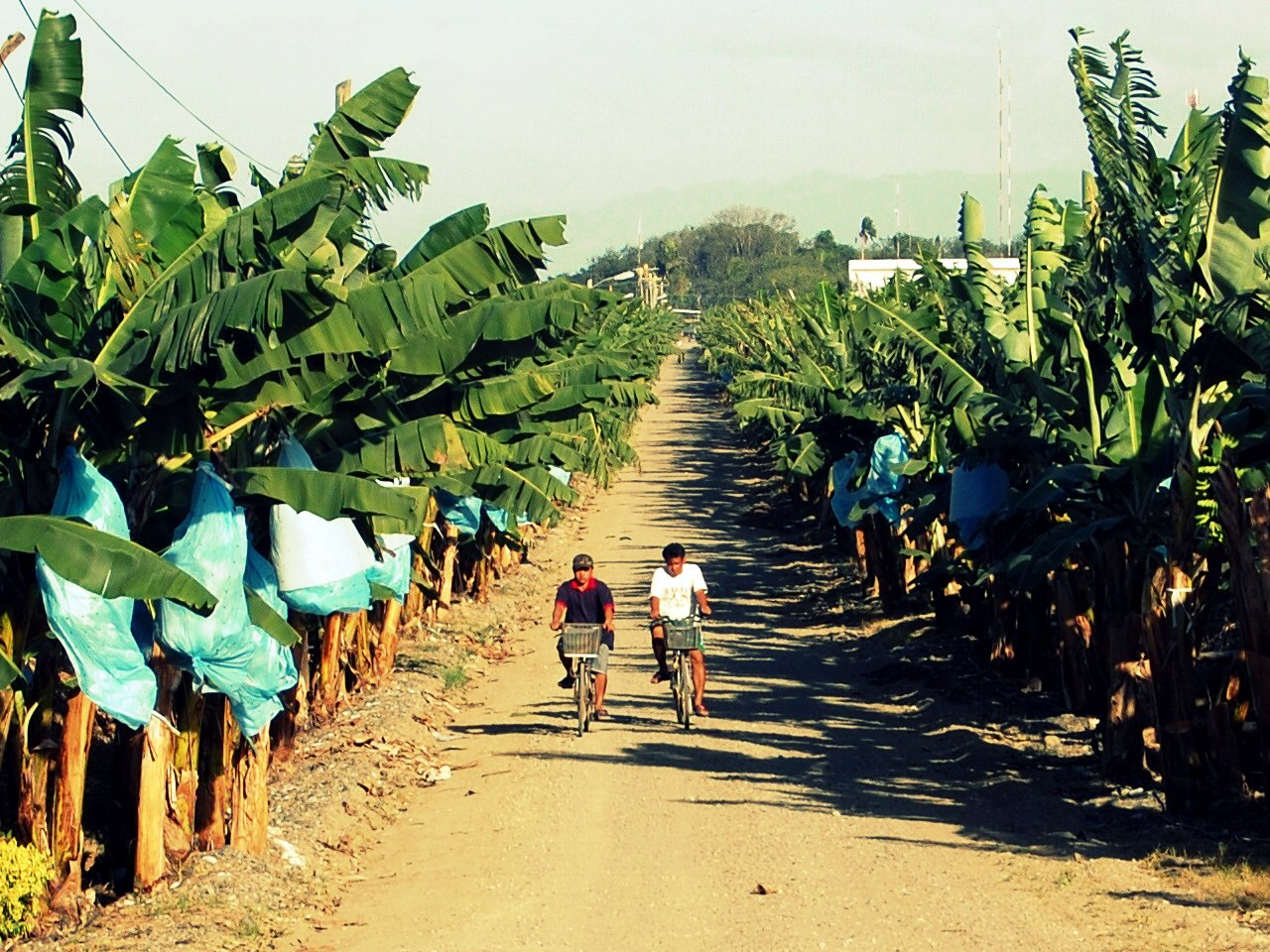 Banana plantation (Panabo City, Davao Oriental, Philippines)